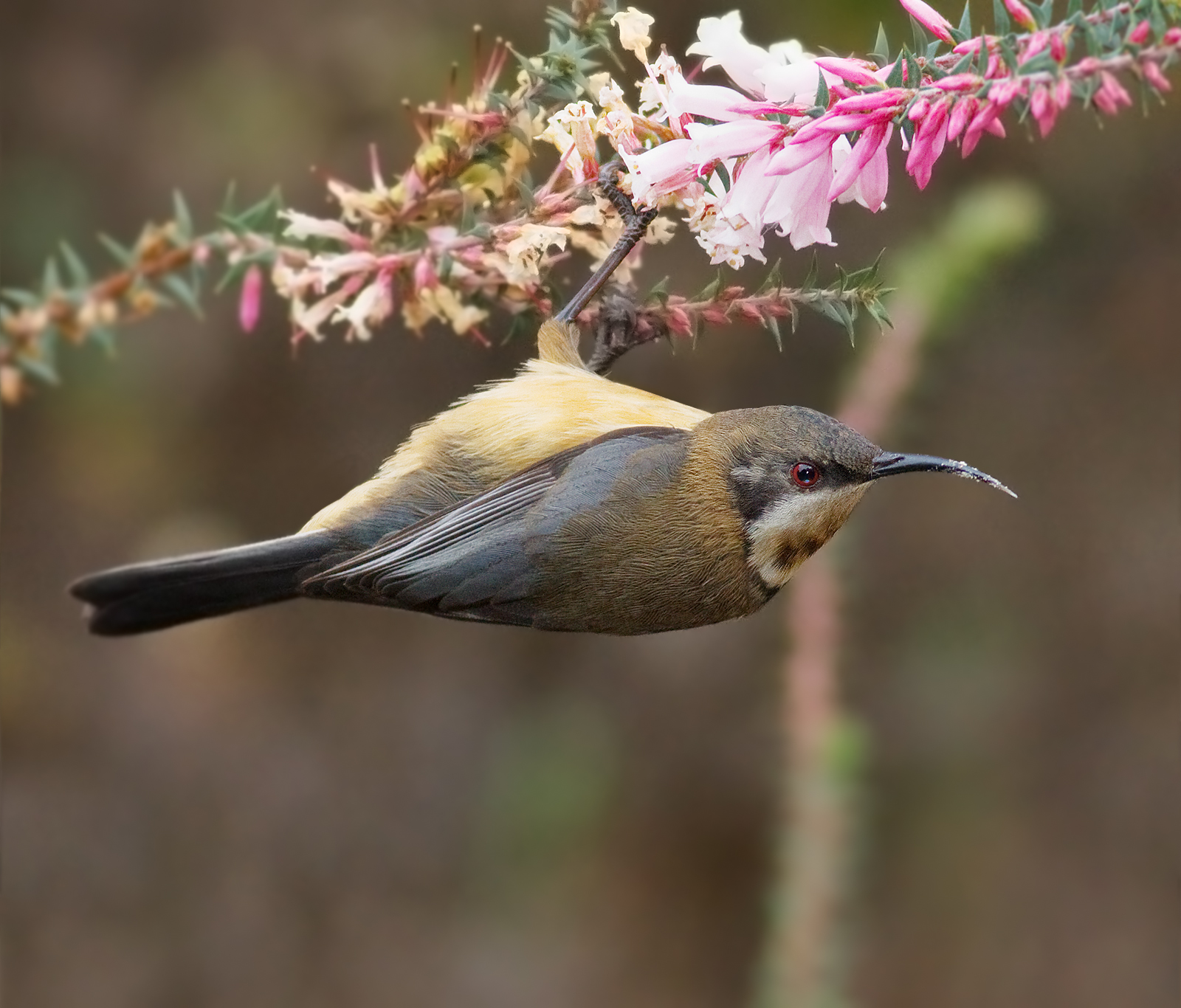 Eastern Spinebill (Acanthorhynchus tenuirostris), Female on Common Heath (Epacris impressa), Royal Tasmanian Botanical Gardens, Tasmania, Australia